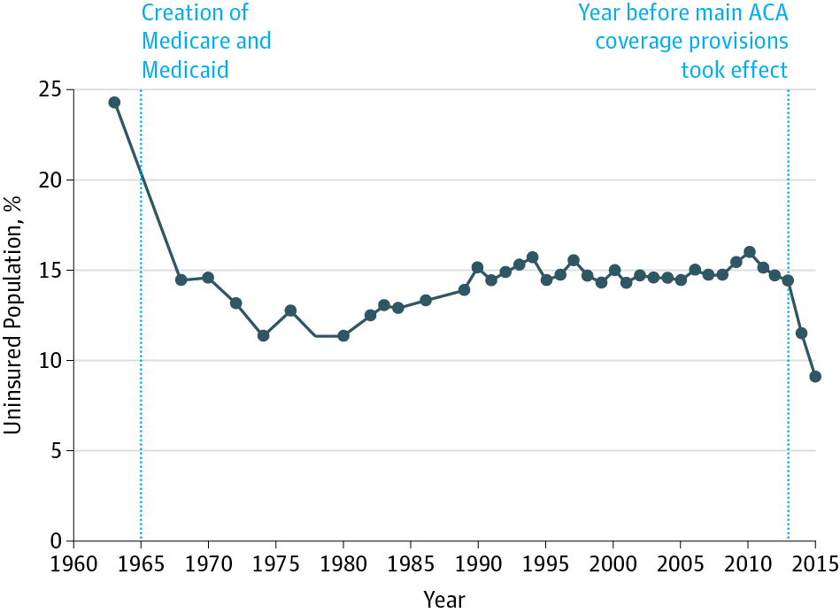 Chart displaying the percentage of the United States population without health insurance, 1963–2015